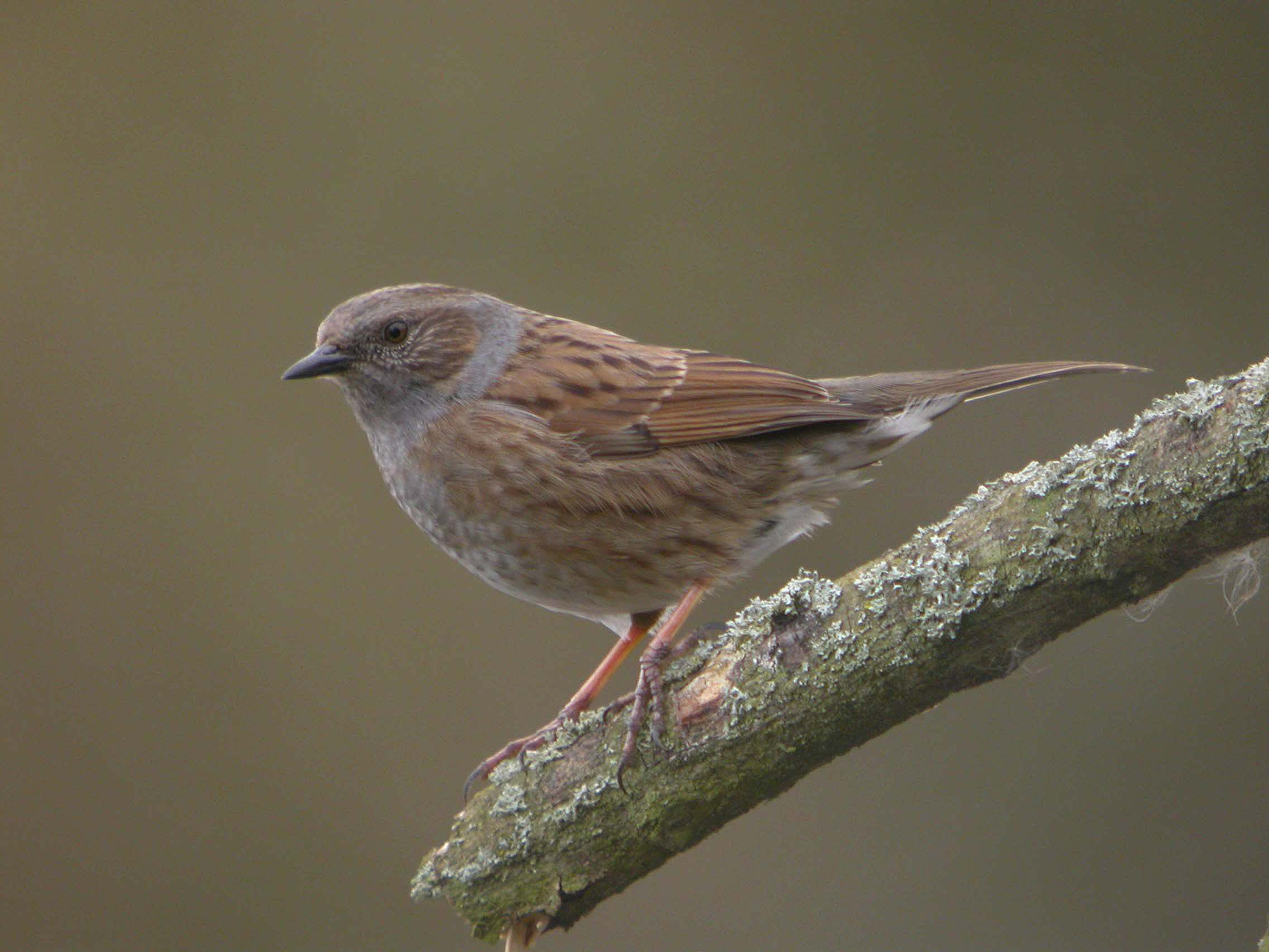 Dunnock